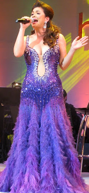 Regine Velasquez during her fragrance launch for clothing brand BENCH.